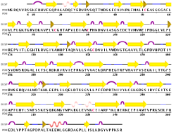 Secondary structure using DSSP